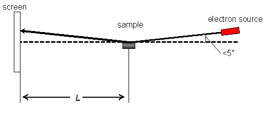 Schematic of a RHEED system, basically from memory. Uploader is author.